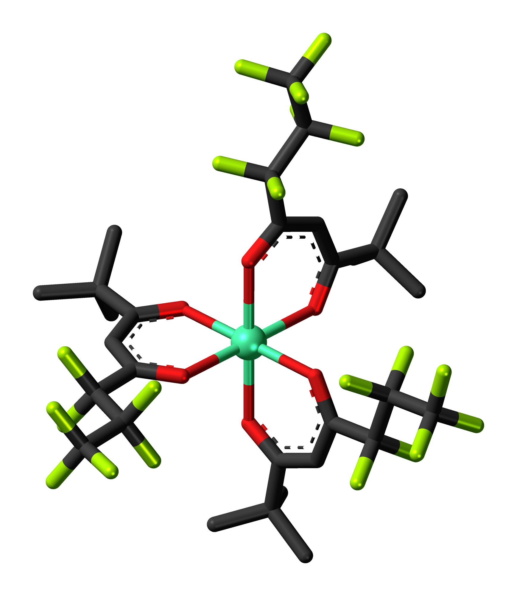 Skeletal stick model (hydrogen atoms omitted) of the EuFOD complex, a shift reagent in NMR spectroscopy. Colour code: Carbon, C: black Oxygen, O: red Yellow-green: Fluorine, F Europium, Eu: aqua